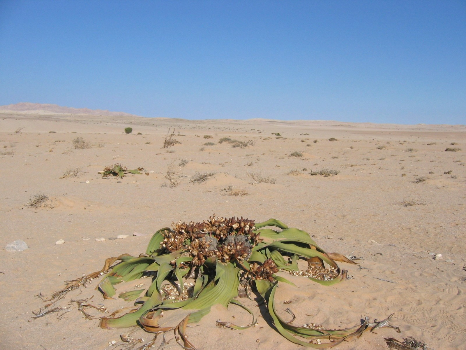 End of Welwitschia-Drive, Welwitschia Plain, Central Namib Desert, Namibia